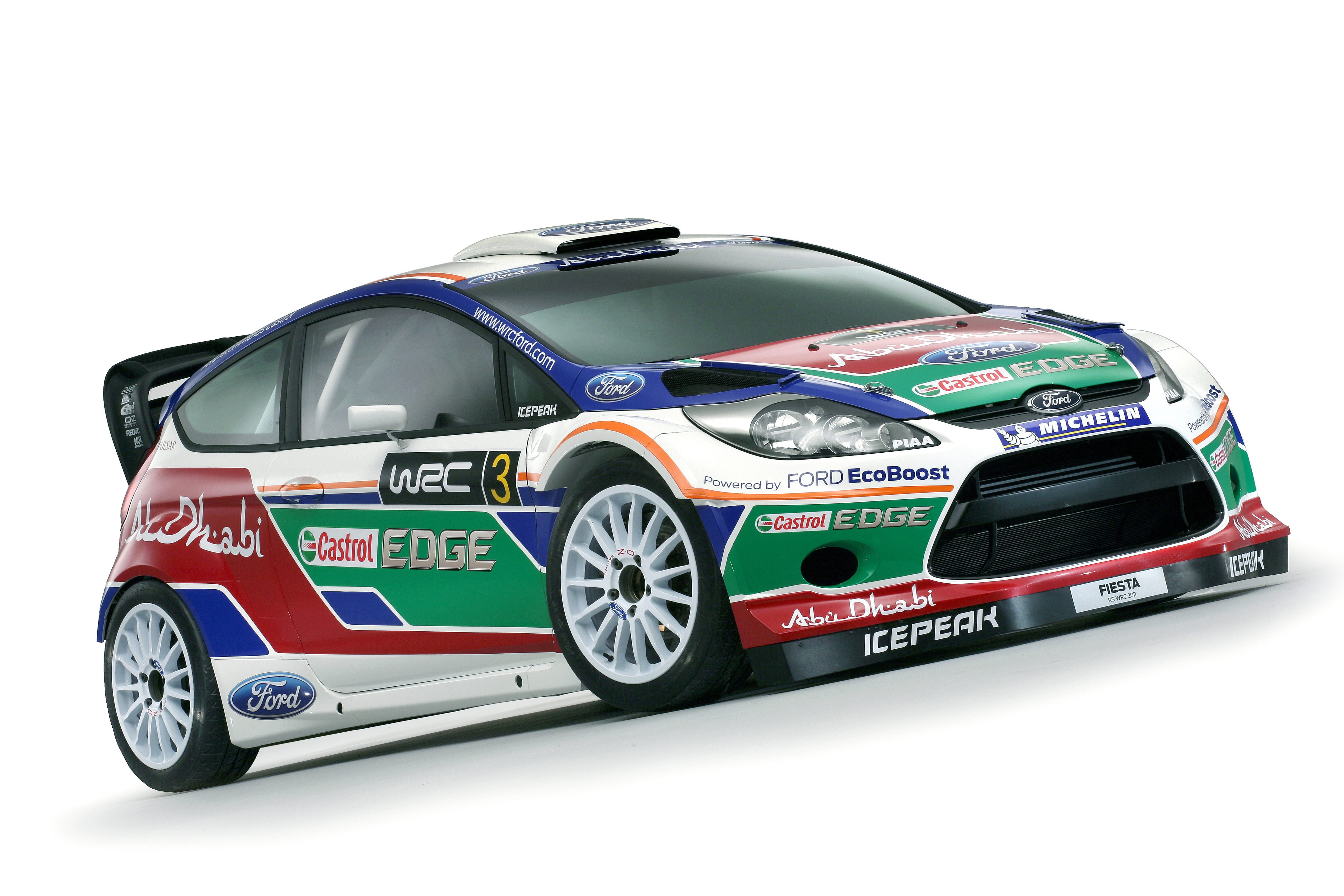 The Ford Fiesta RS World Rally Car, entered by the Ford World Rally Team for the 2011 World Rally Championship.